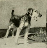 Photograph of Ch. Bothwell Sorceress at the age of 3 months, a Airedale Terrier.